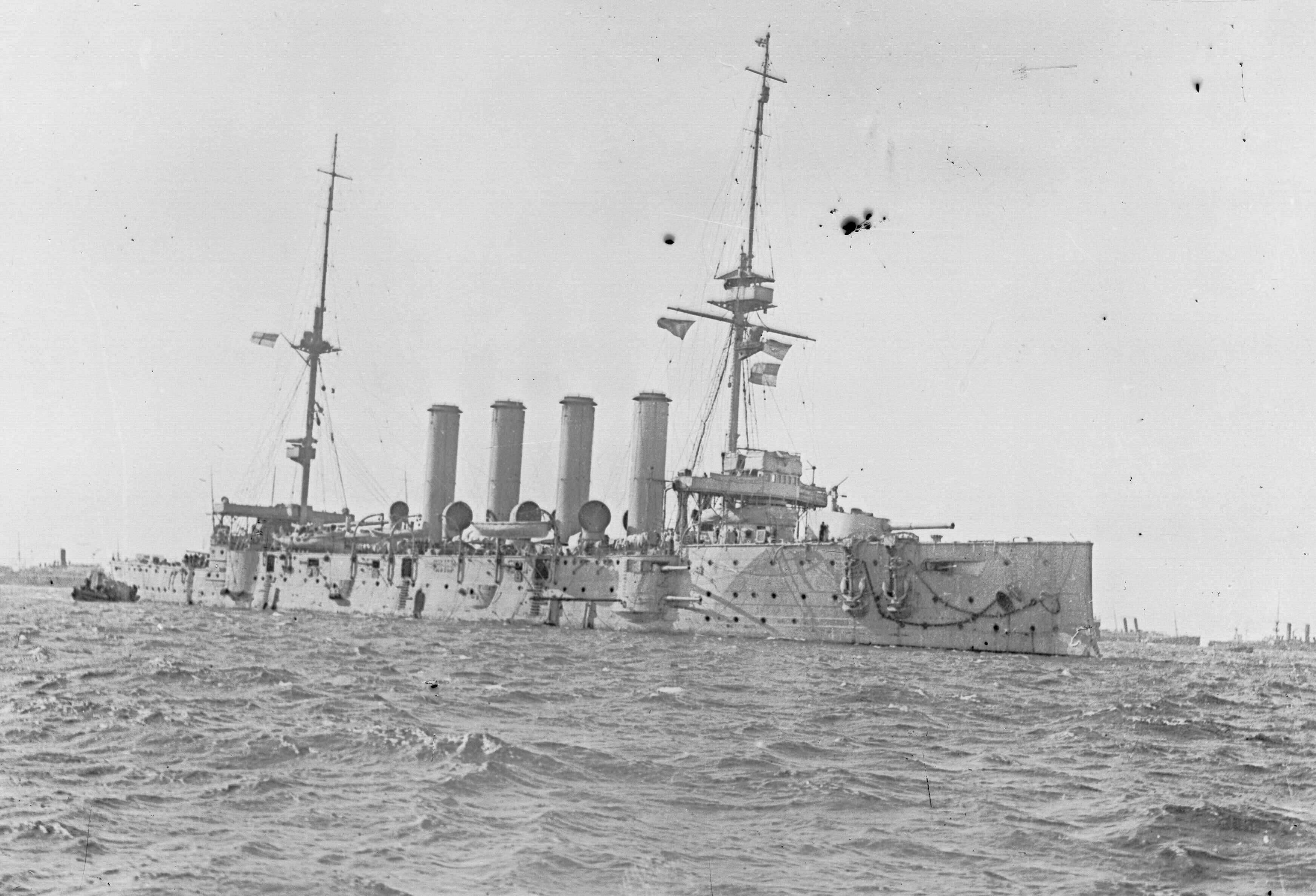 ...The content available on the site are mostly Gallica digital reproductions of works in the public domain from the collections of the BnF.